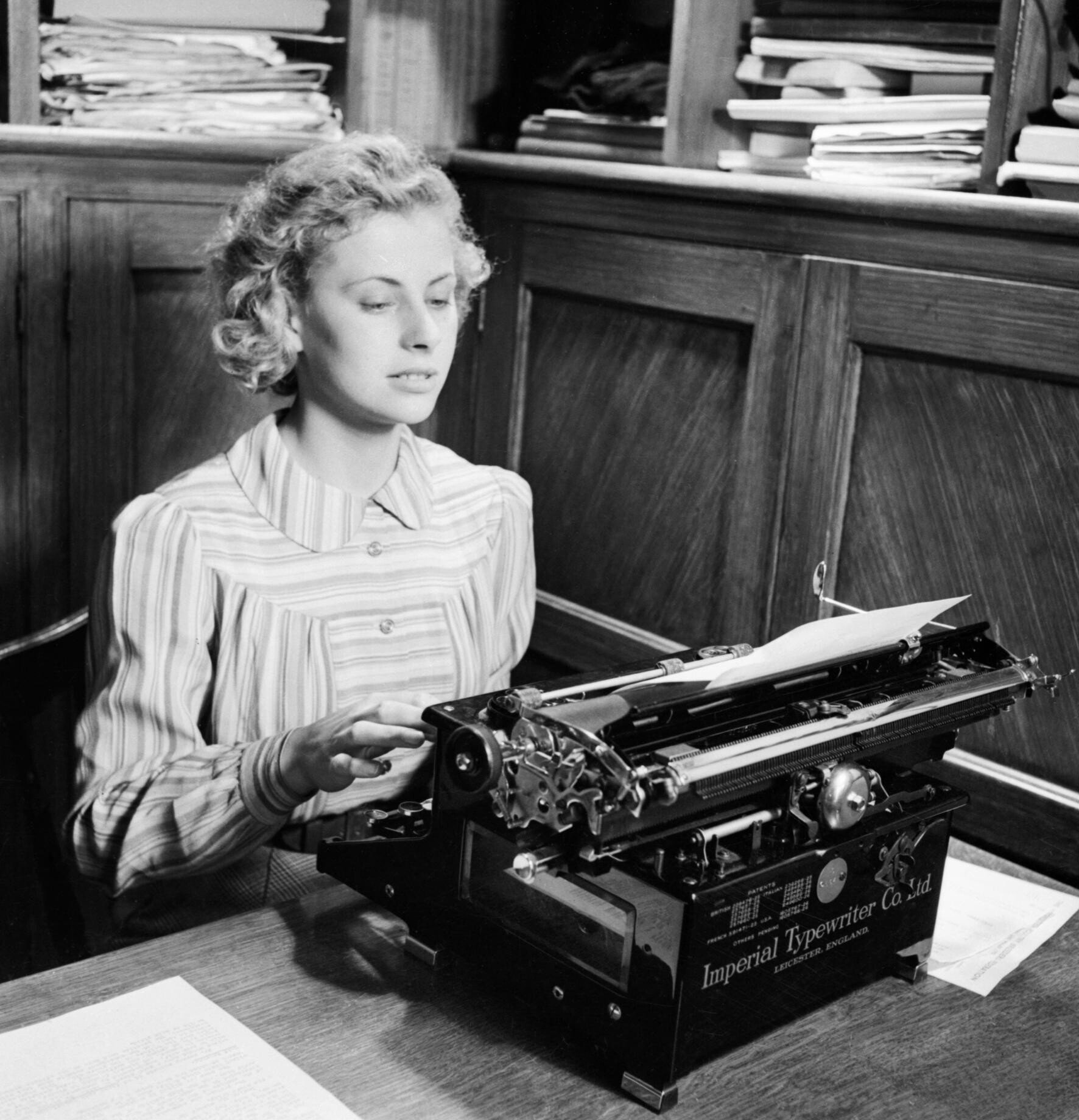 Iris Joyce at work on her typewriter in an office prior to joining the Women's Land Army in 1942. 19 year old typist Iris Joyce at work on her typewriter in an office somewhere in Britain, two weeks before her re-training as a member of the Women's Land Army. The original Ministry of Information caption states that Iris was the perfect typist until "...came the third year of war, and a new restlessness".